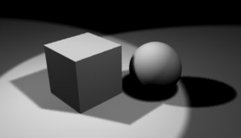 Simple Setup for testing of the different shadowtypes. Classic-Halfway shadow.